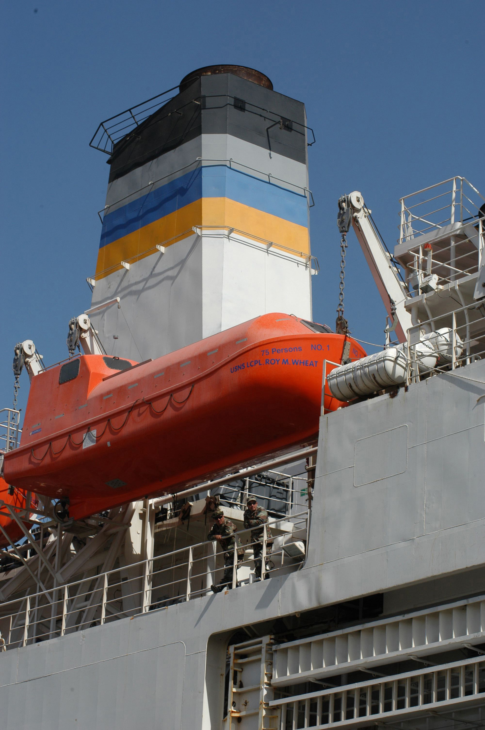 All MSC ships, regardless of type or hull color, shall have their stacks painted with the distinctive color bands described below: Top band: Black for a width of two-fifteenths of “H” 2nd band: Haze Gray (FS 26270) for one-fifteenth of “H” 3rd band: Blue (FS 15123) for one-fifteenth of “H” 4th band: Yellow (FS 13538) for of one-fifteenth of “H” "H" beeing the overall height of the stack (funnel). The remainder of the stack (below the yellow band) shall be painted the same color as the surrounding deckhouse.